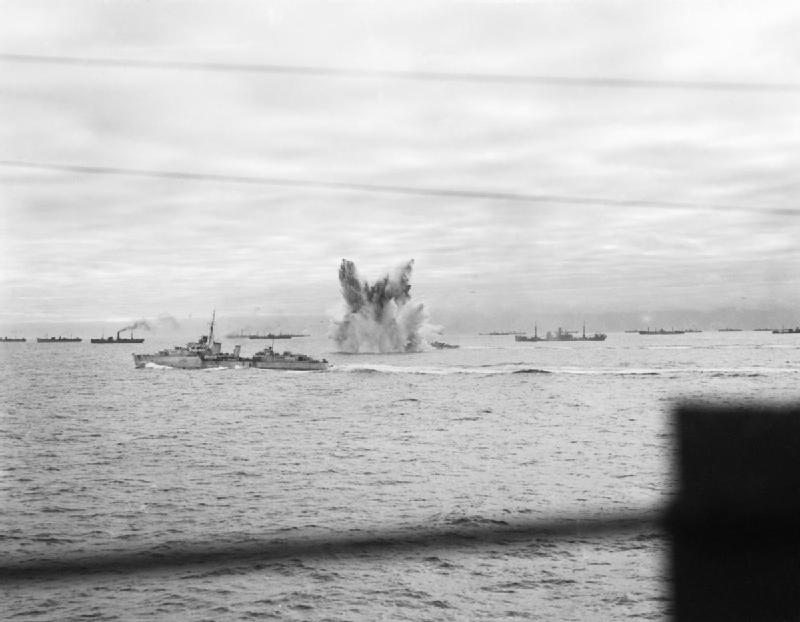 Convoy PQ 18 at sea. An underwater detonation erupts next to HMS Ashanti. The destroyer HMS Eskimo is seen in the foreground. Merchant ships are in the background.